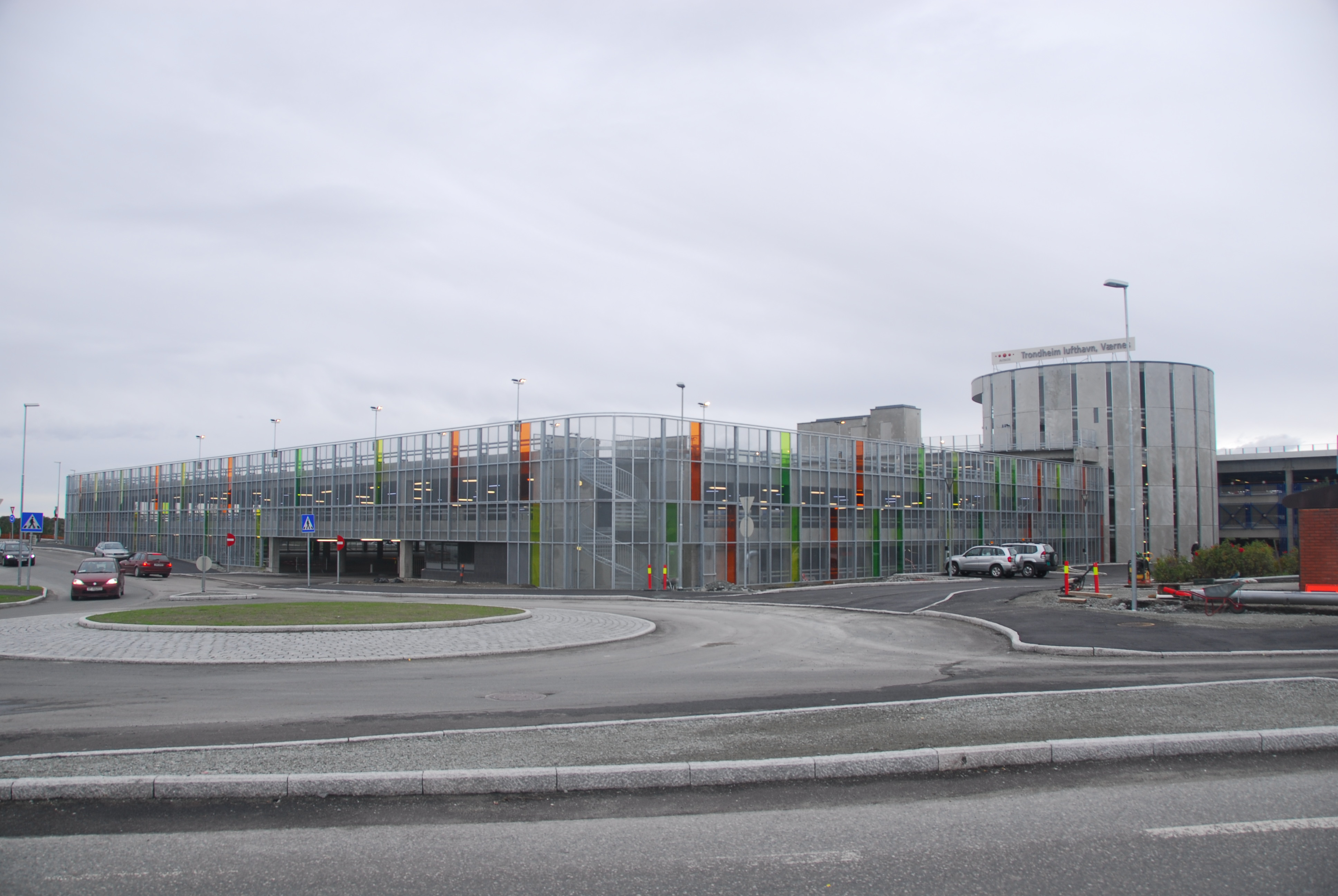 The 2009 parking house at Trondheim Airport, Værnes in Norway